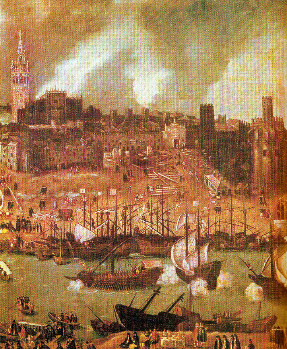 Shipyards over the Guadalquivir in XVI cent. Sevilla